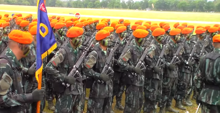 indonesian air force infantry, paskhas